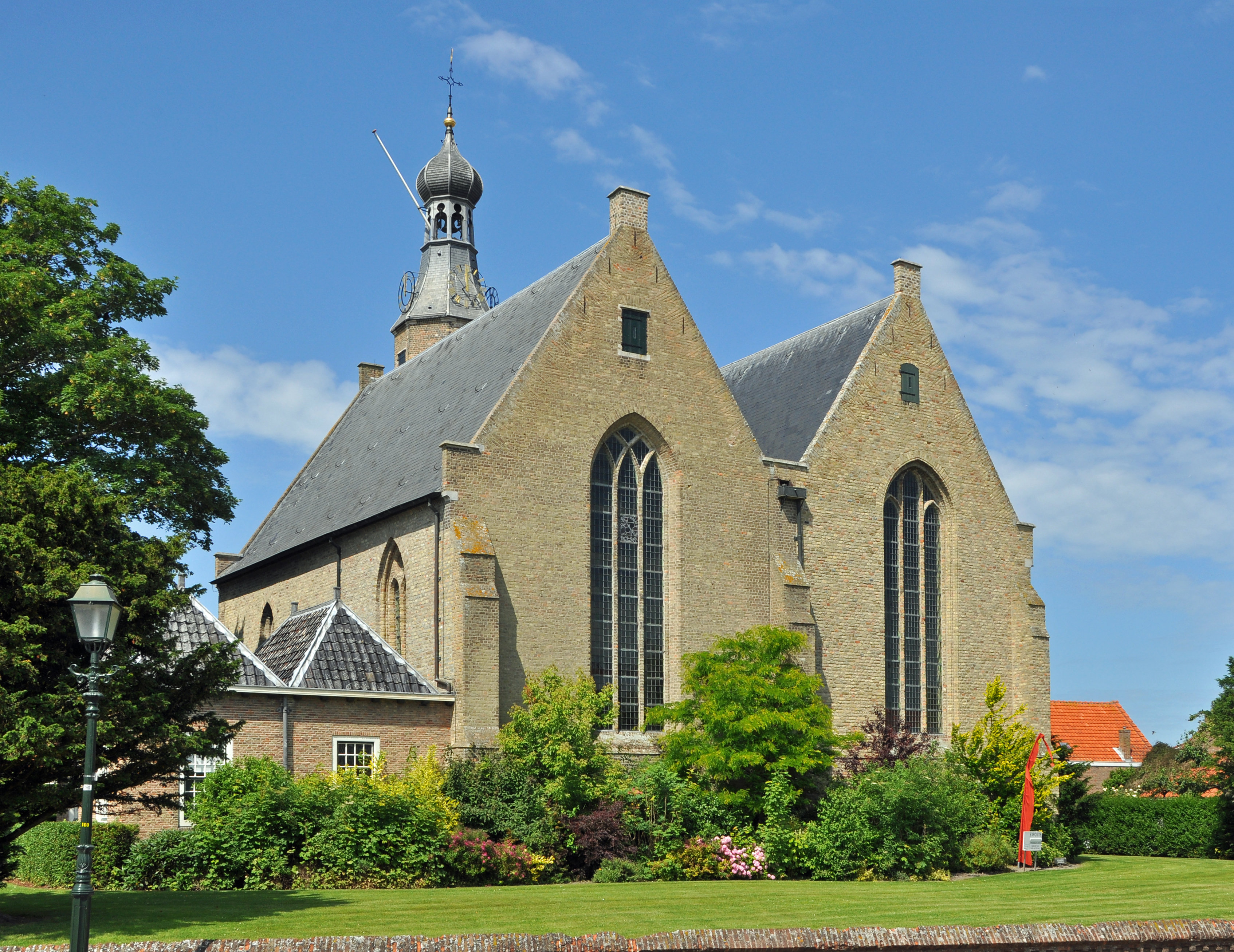 Cadzand (Sluis, the Netherlands): St Mary's church